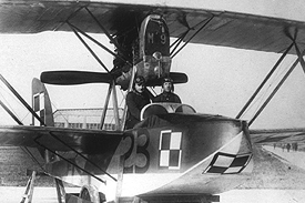 A Macchi M.9 in polish service.